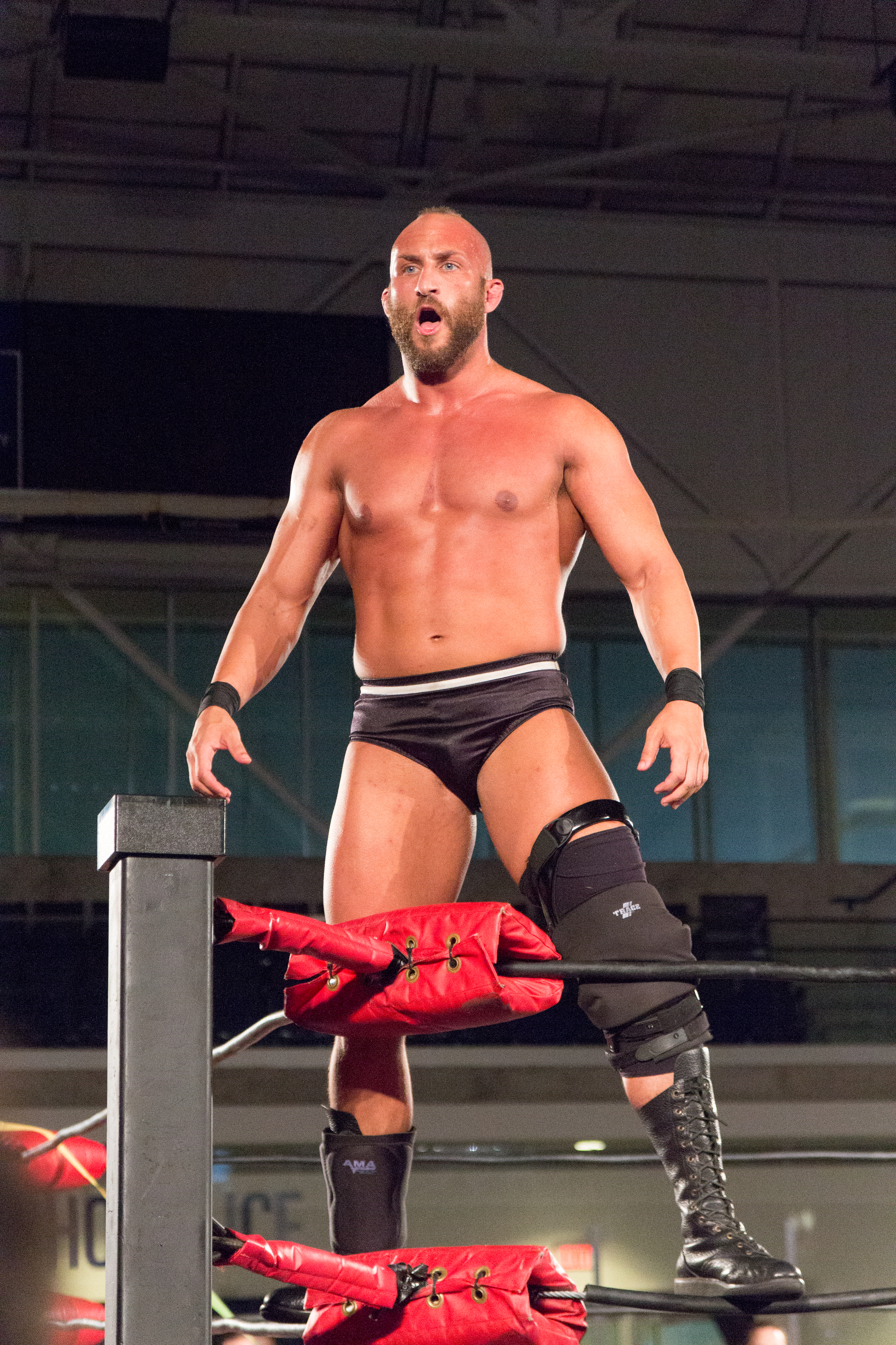 Tommaso Ciampa posing post-match at a Ring of Honor event at the Mattamy Athletic Centre in Toronto, ON